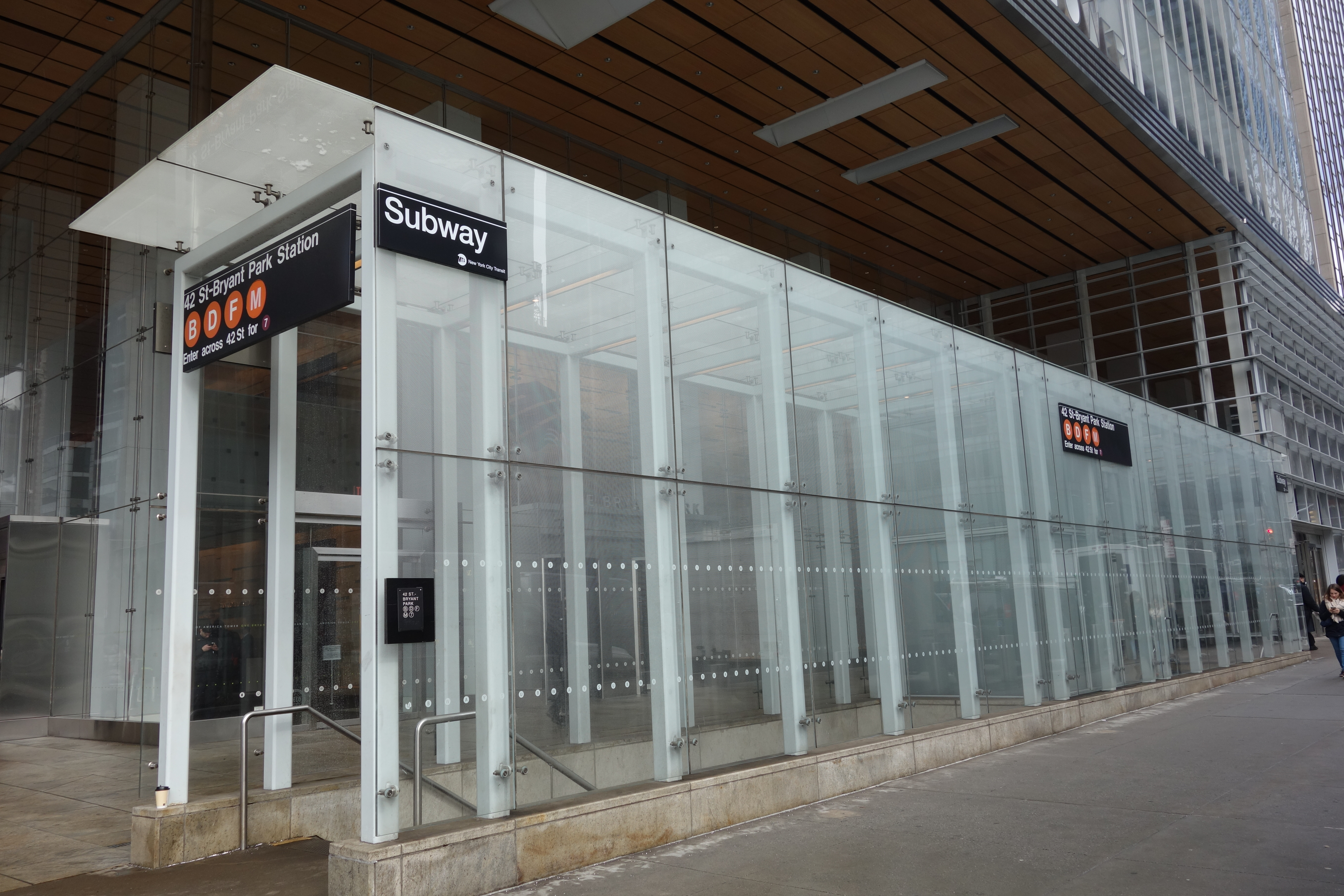 The unique glass entrance to the 42nd Street – Bryant Park IND subway station underneath the Bank of America Tower, at the northwest corner of 6th Avenue and 42nd Street in Midtown Manhattan.